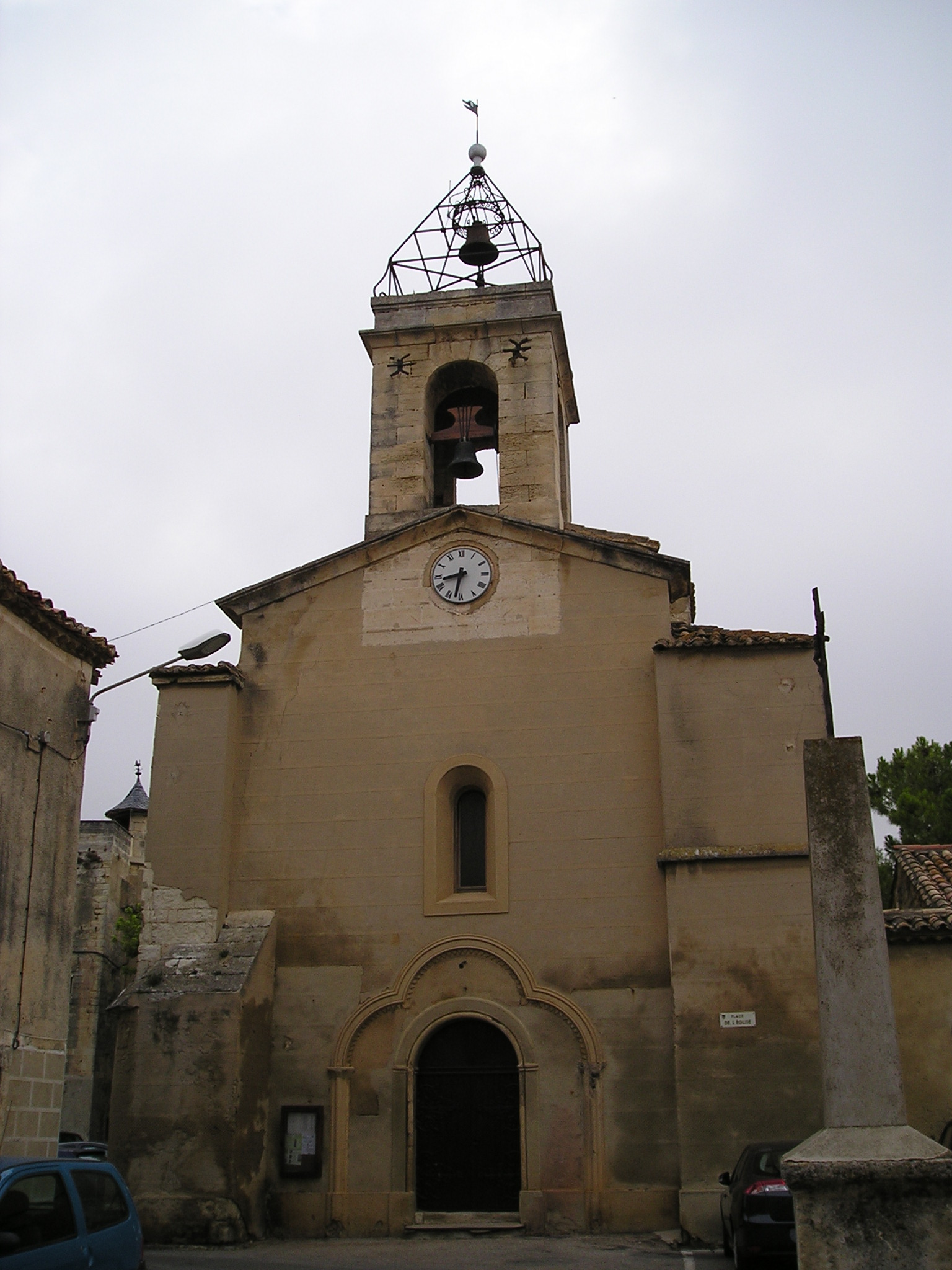 In Hérault, France, the church Saints-Côme-et-Damien of Candillargues.